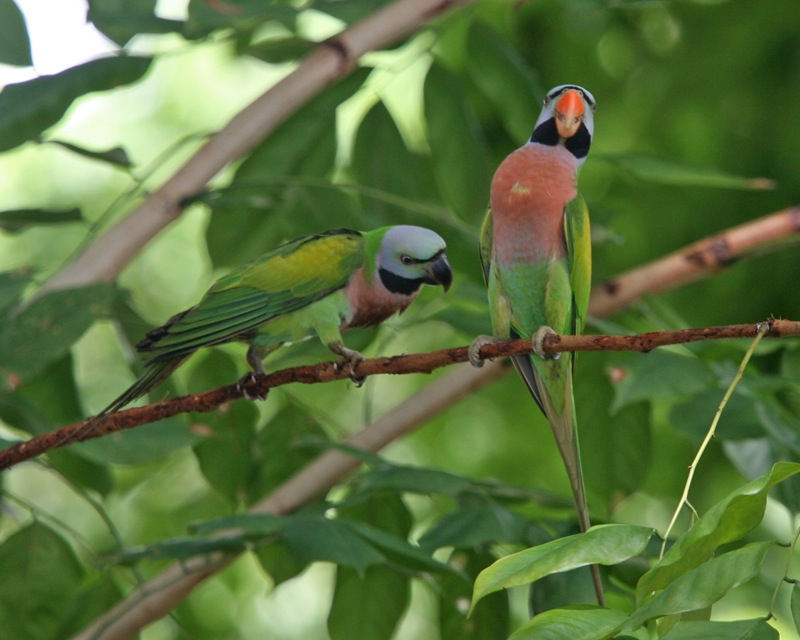 Red-breasted Parakeet (Psittacula alexandri fasciata). Coutrtship - male on right. Changi Village, Singapore. 2 January 2006. (cosy moments before we were rudely interupted). Other names: Banded Parakeet, Bearded Parakeet, Indian Red-breasted Parakeet, Moustached Parakeet, Pink-breasted Parakeet, Red breasted Parakeet, Red-breasted Parakeet, Rose-breasted Parakeet Malay name: Bayan Dada Merah Indonesian name: Betet